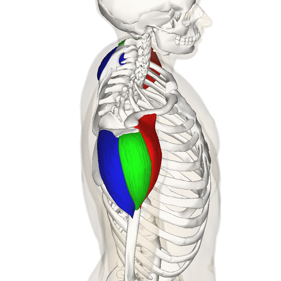 Deltoid muscle. Clavicular part of deltoid Acromial part of deltoid Spinal part of deltoid